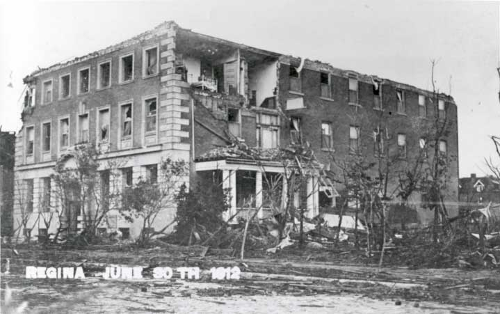 Photo of June 30, 1912 cyclone in Regina, Saskatchewan